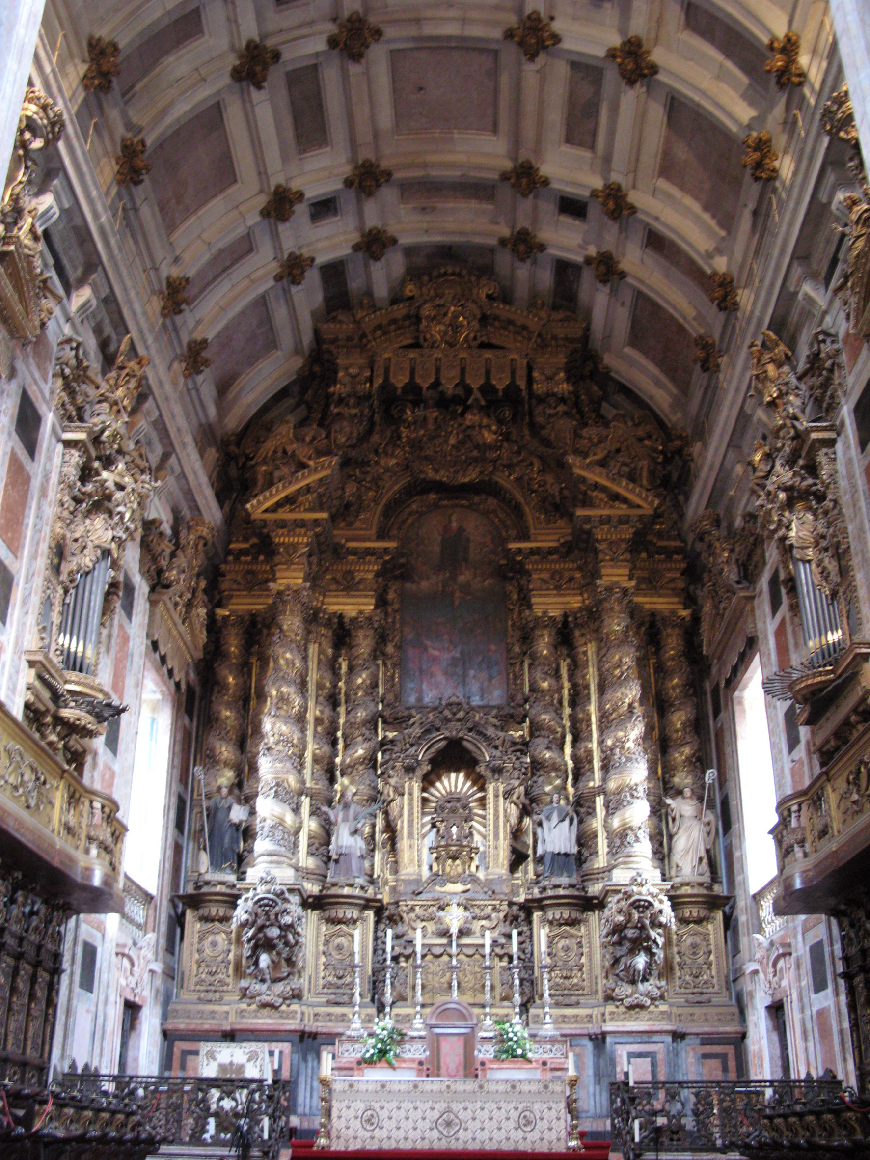 Main Chapel of Porto Cathedral, Portugal